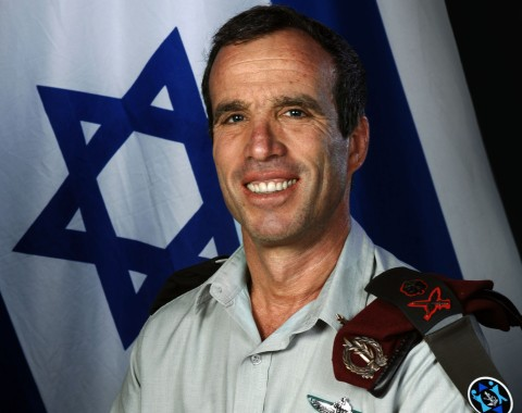 Aluf Elazar Stern of IDF